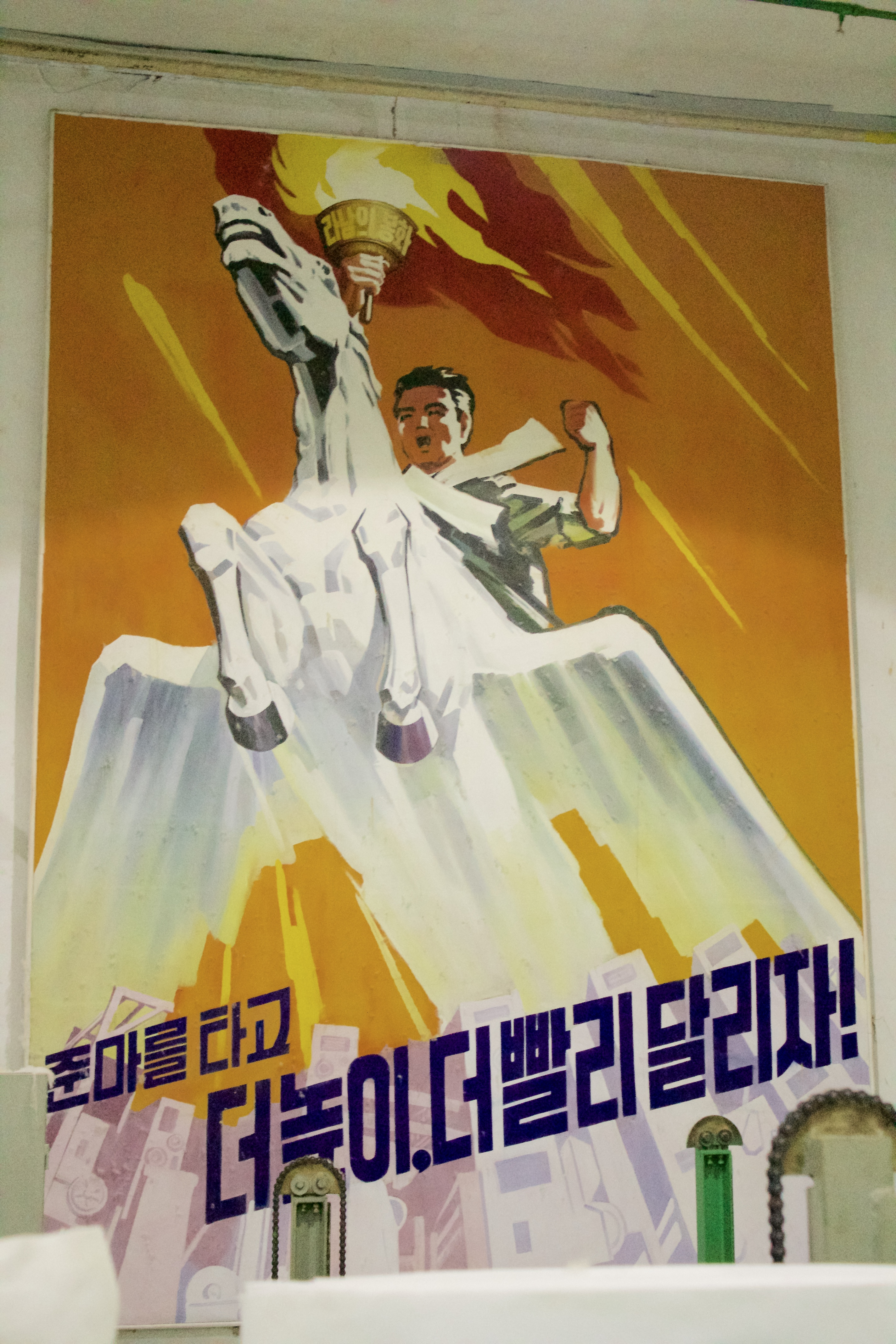 Propaganda at Pleather Factory